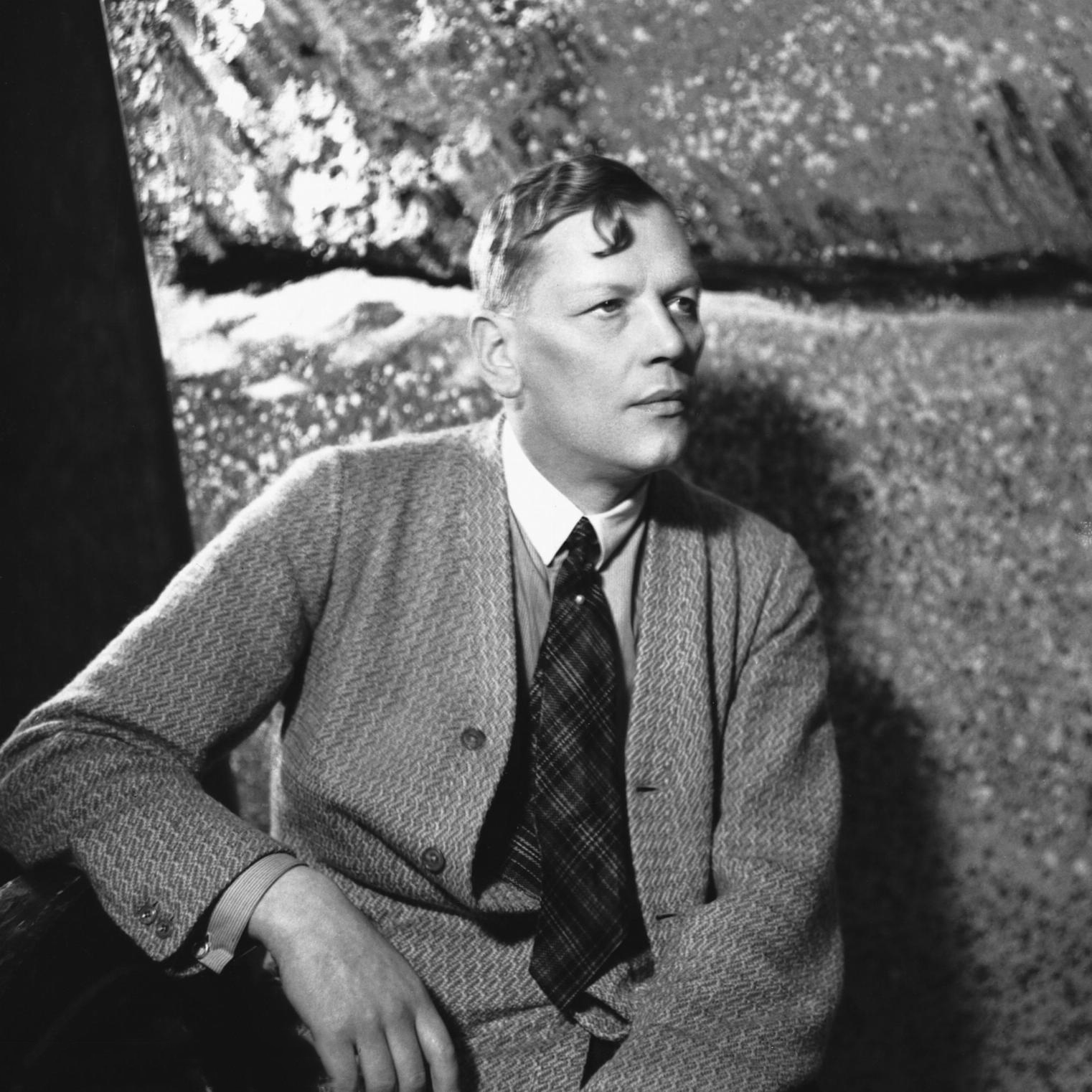 Hans Knappertsbusch